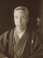 Kuratomi Yuzaburo, Japanese politician of Showa era